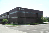 Description of Minacs Farmington Hills faciity